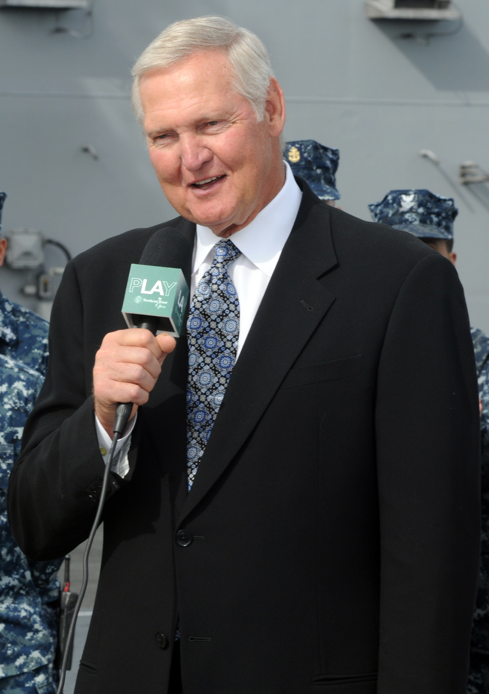 PACIFIC OCEAN (Jan. 25, 2011) – NBA Hall-of-Famer Jerry West (right) interviews Capt. Thom Burke, commanding officer of the aircraft carrier USS Ronald Reagan (CVN 76), during a filmed segment on the flight deck of the Reagan as part of “Play for L.A.” an 18-day charitable event leading to the Northern Trust Open on February 15. Ronald Reagan is currently moored pierside in its homeport of San Diego preparing for an upcoming deployment. (U.S. Navy photo by Mass Communication Specialist Seaman Nicholas A. Groesch/ Released)